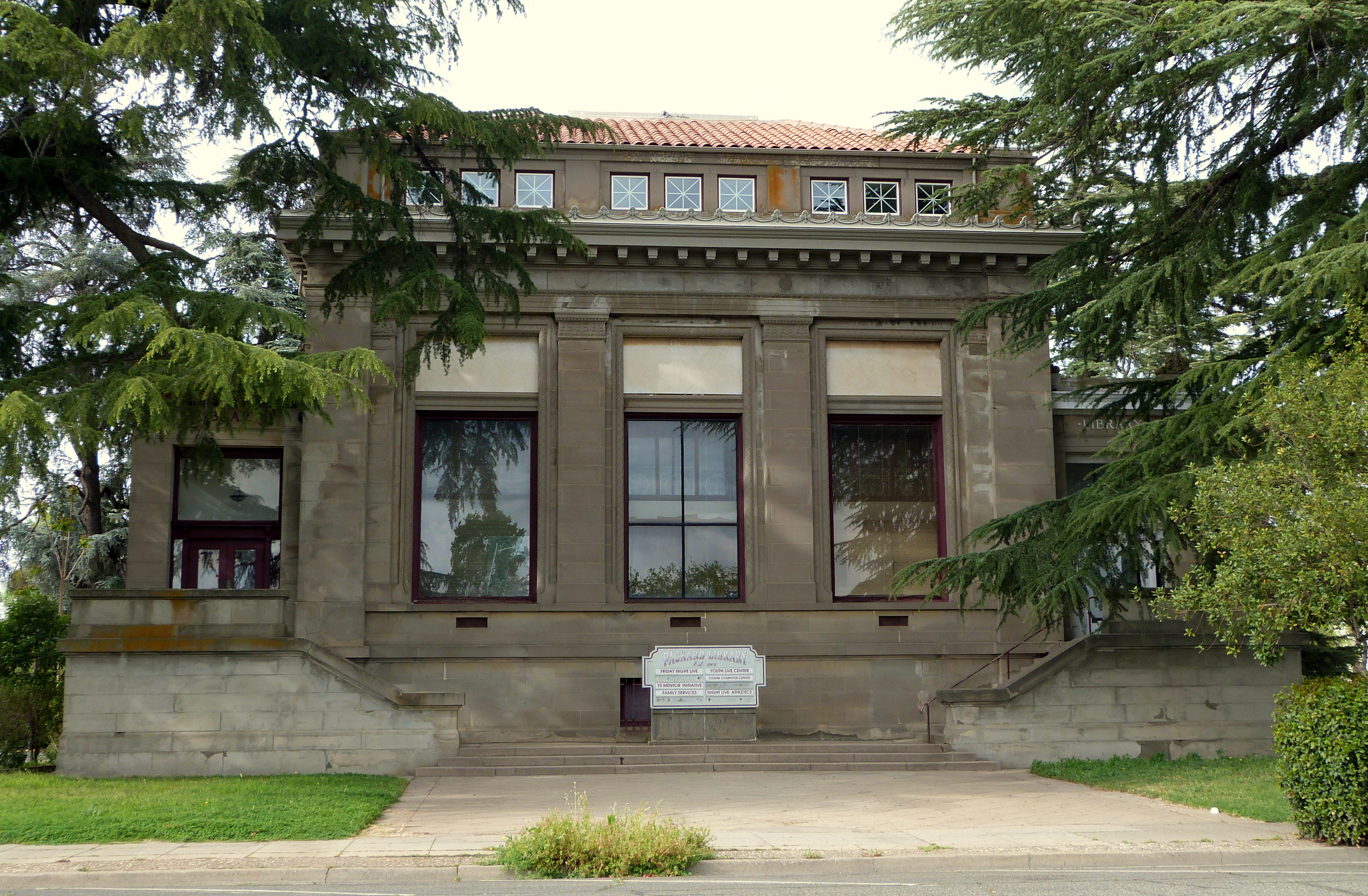 The historic Packard Library (built 1905–1906), located at 301 4th Street in Marysville, California, United States, is listed on the US National Register of Historic Places.